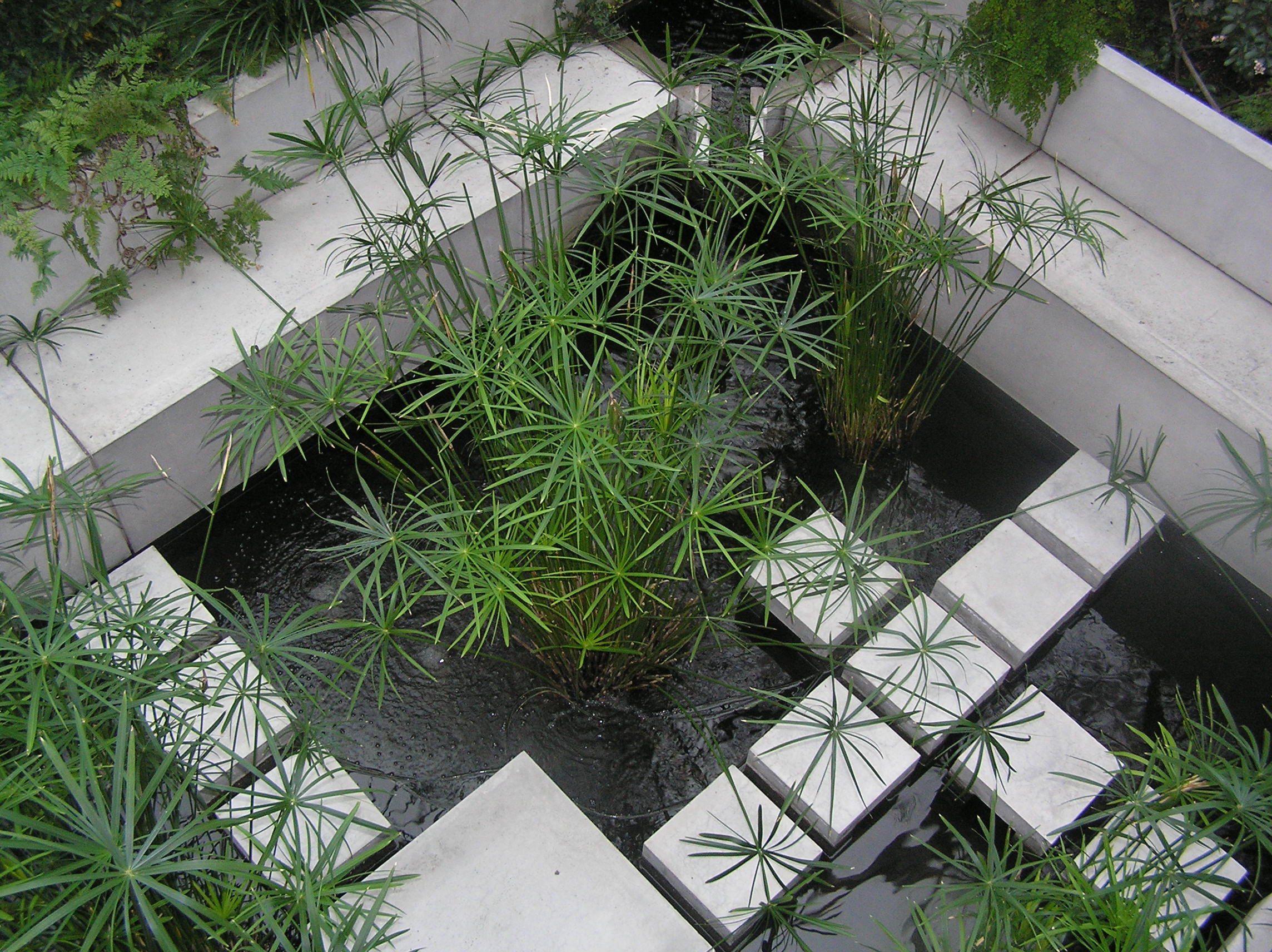 Class of 1959 chapel, Harvard. My own photo.